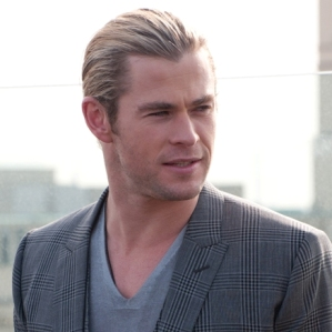 Chris Hemsworth at the Moscow premiere of "The Avengers"